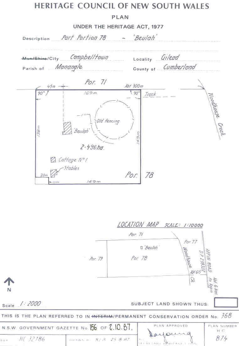 Beulah, Gilead: PCO Plan Number 368